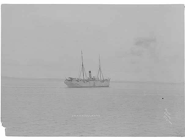 Part of a series depicting troops assembling at Fort Lawton and Seattle before embarking to China for the Boxer Rebellion . Caption on image: U.S.A.T. Rosecrans. Peiser. Seattle. 7/23/1900 . Peiser 10136